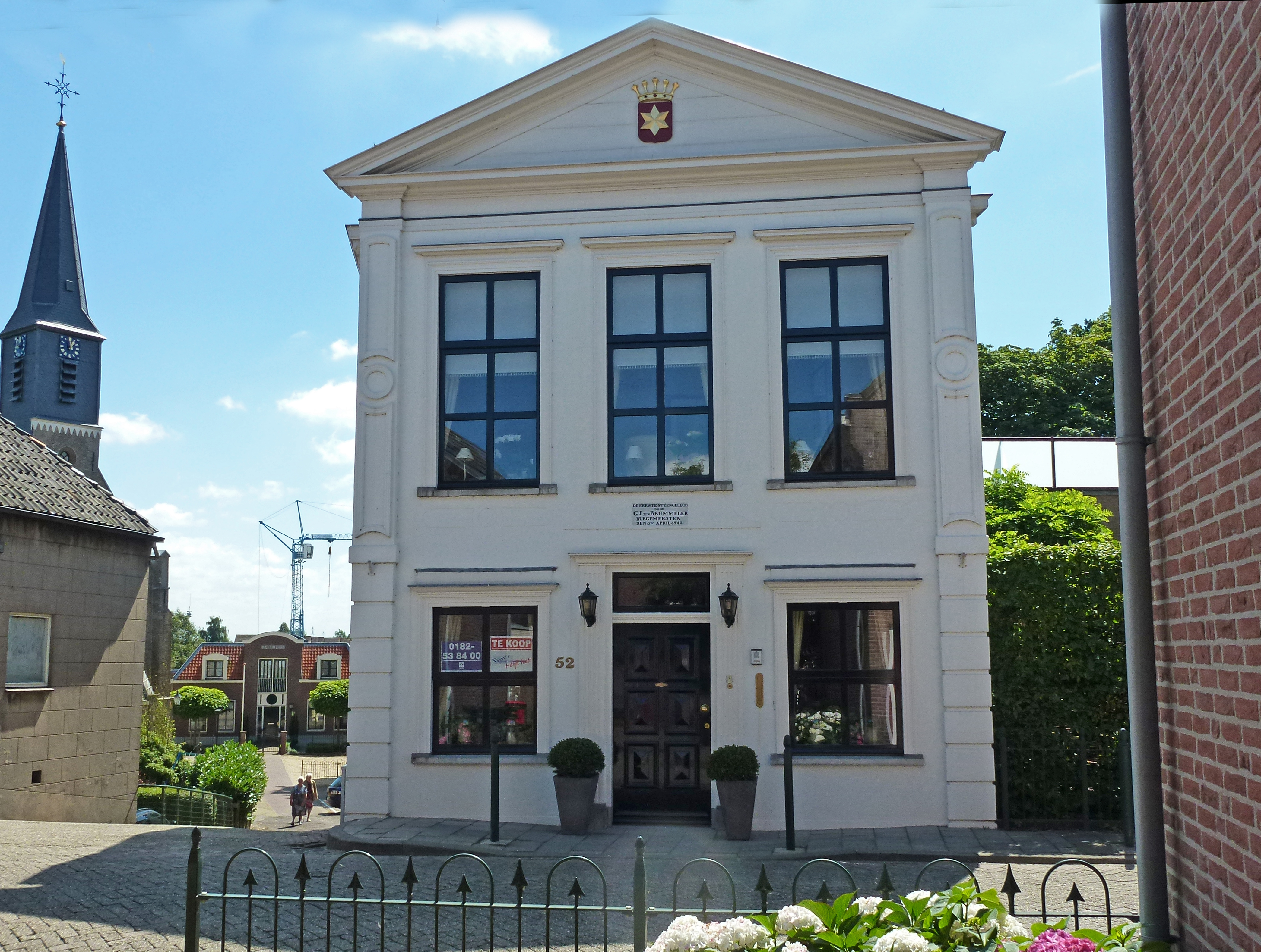 City hall of Gouderak